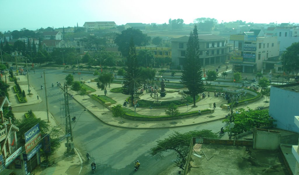 Công viên ở Buôn Hồ